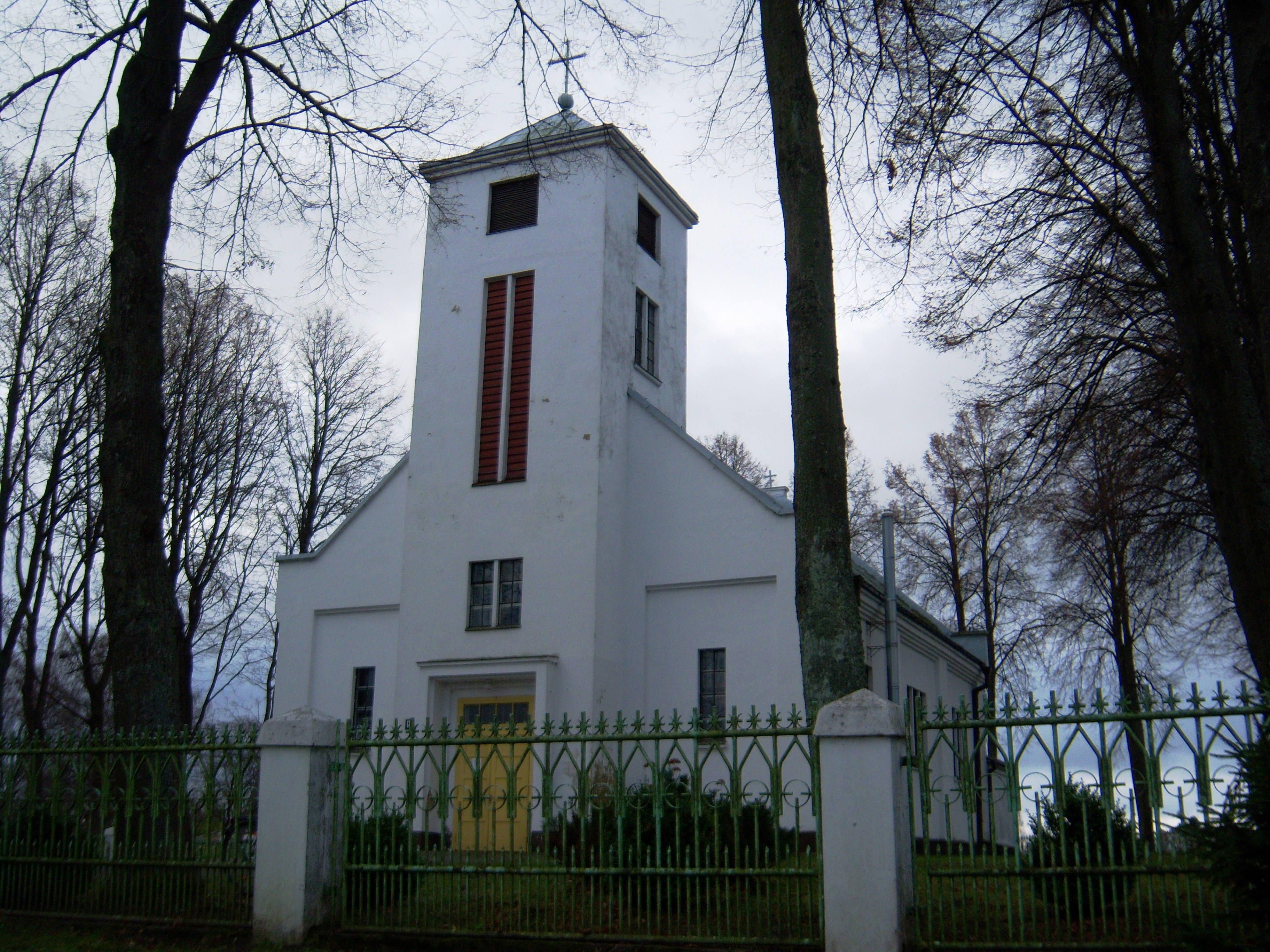 Roman Catholic Church in Priekulė, Klaipėda District, Lithuania